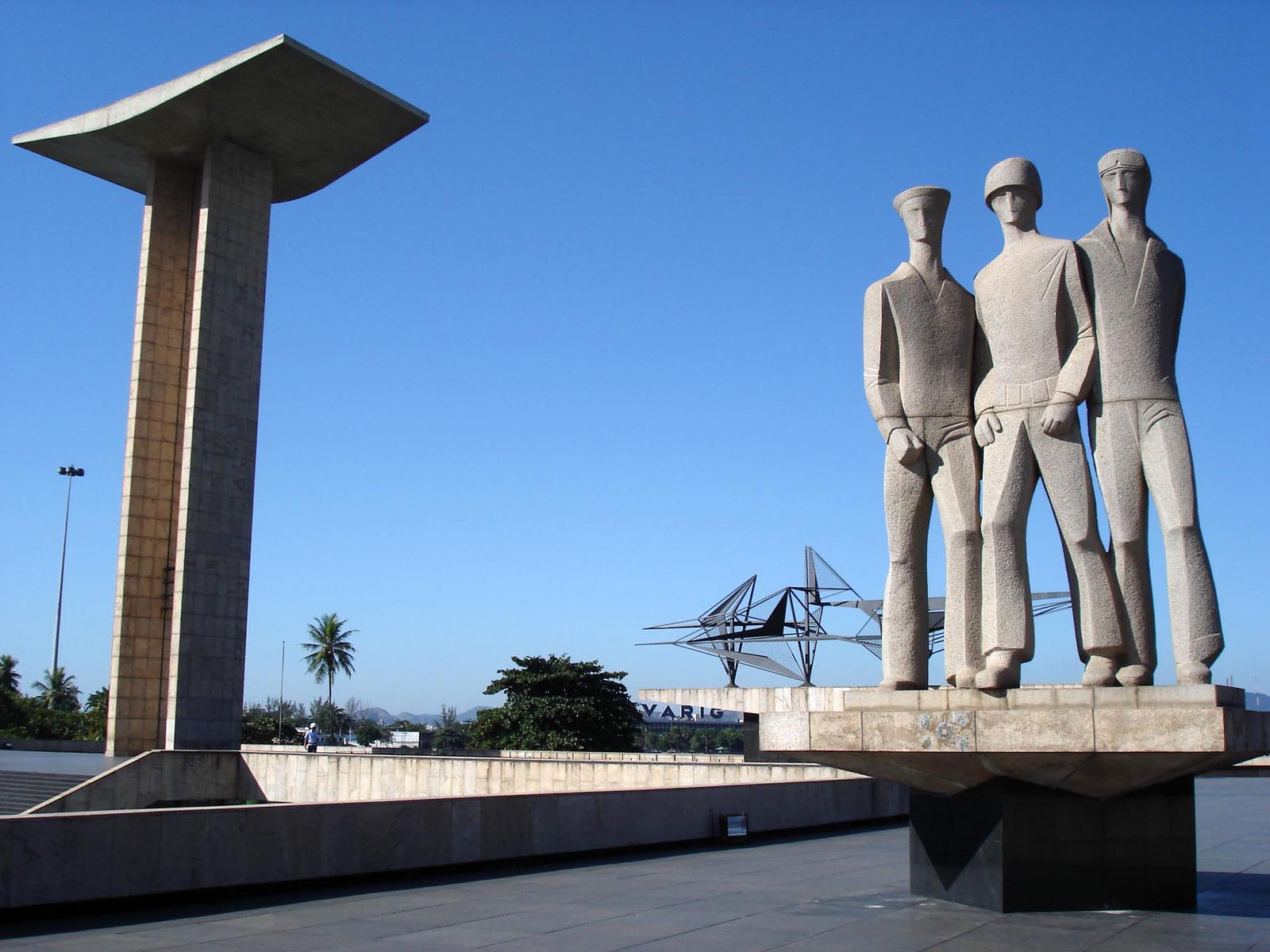 Monuments to the combatants of WWII in Rio de Janeiro